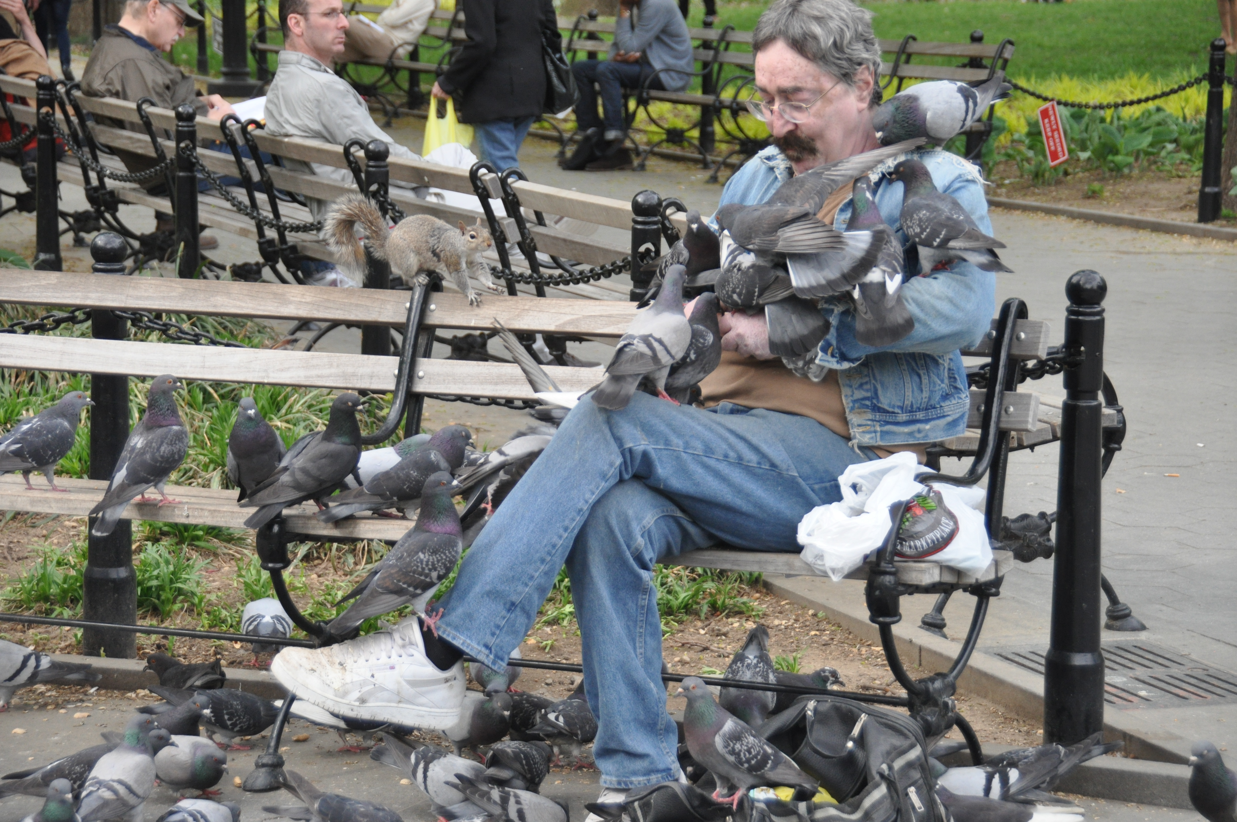 The pigeon man at Washington Square Park